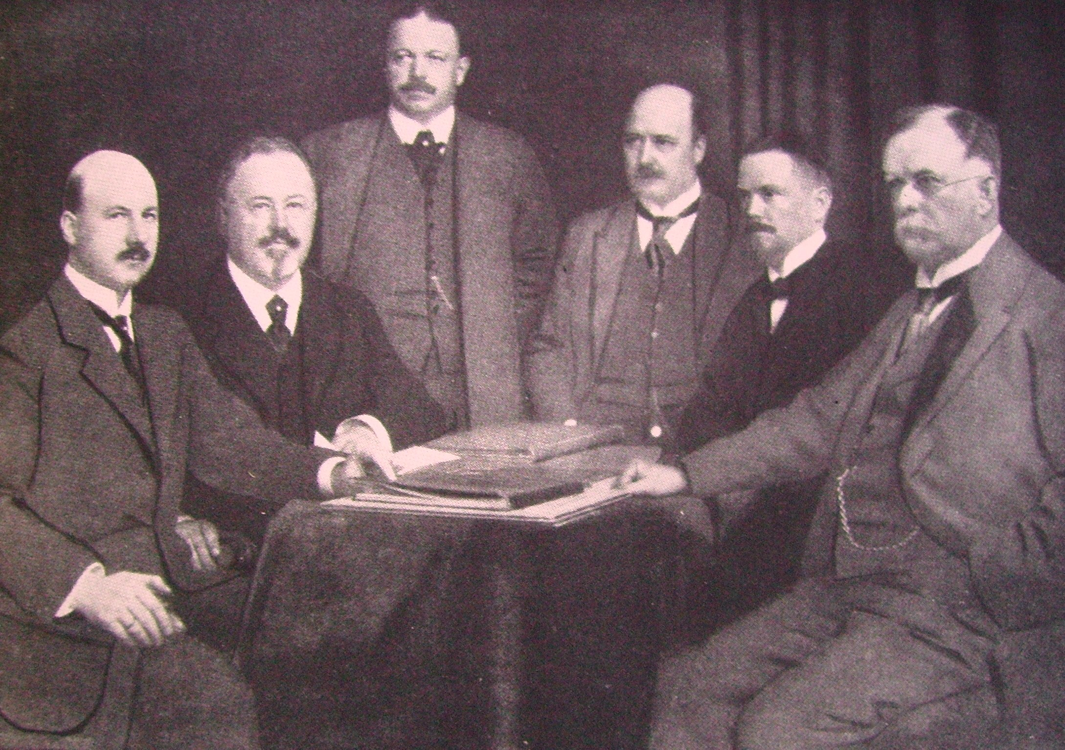 Picture of Svenska pansarbåtsföreningen,s members 1912